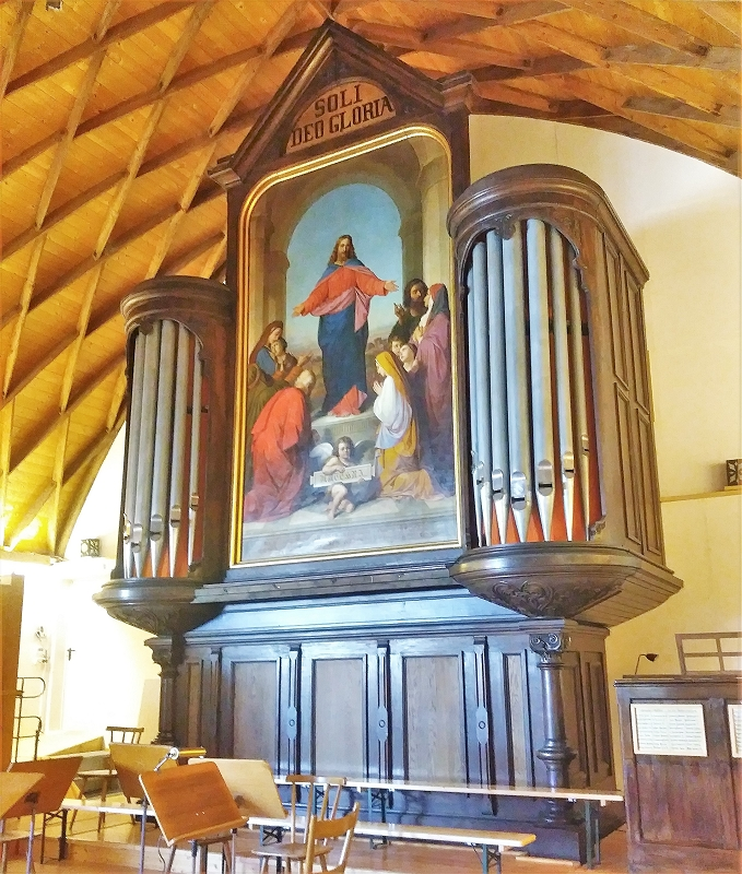 Orgelzentrum Valley